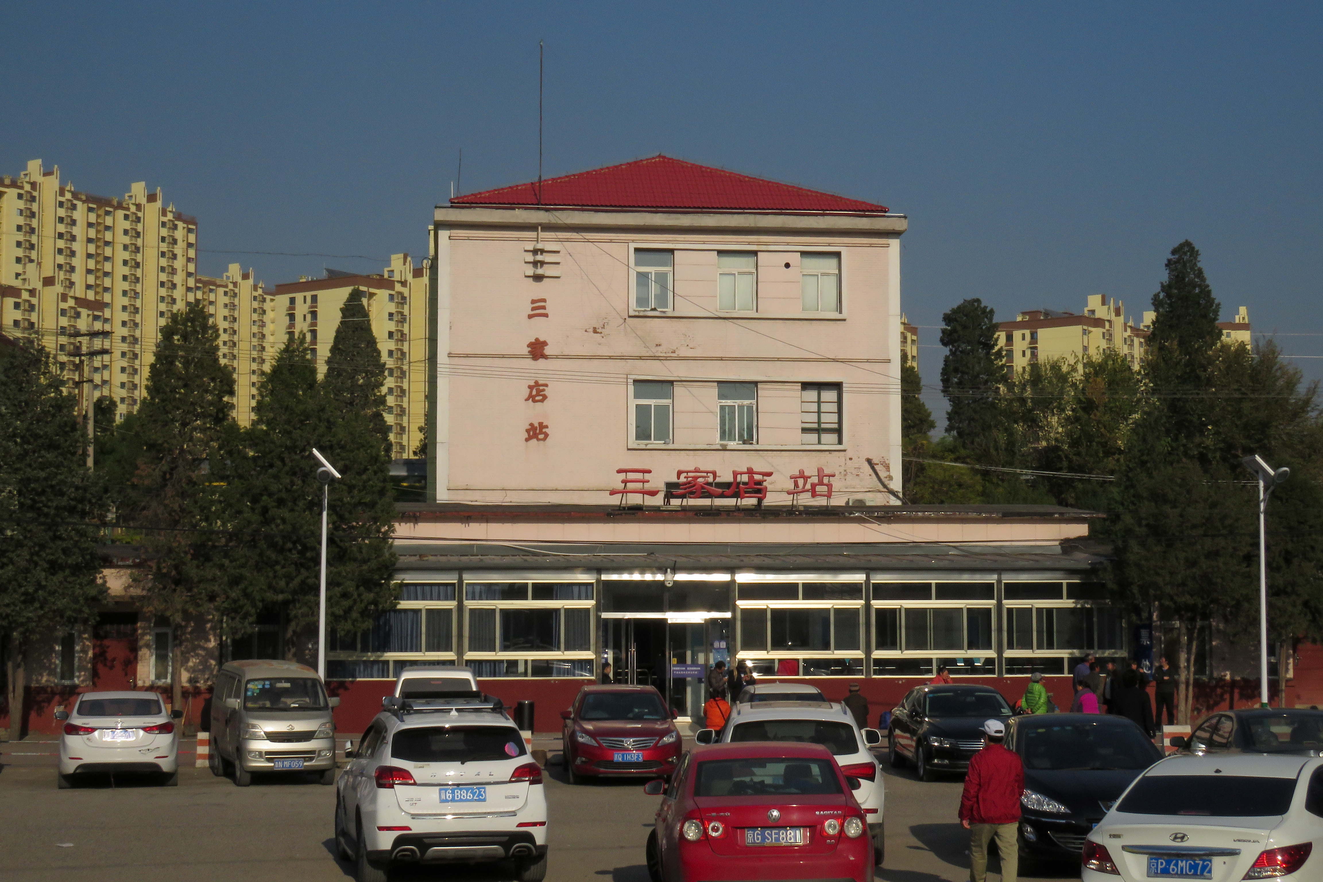 Today's Sanjiadian has another look.